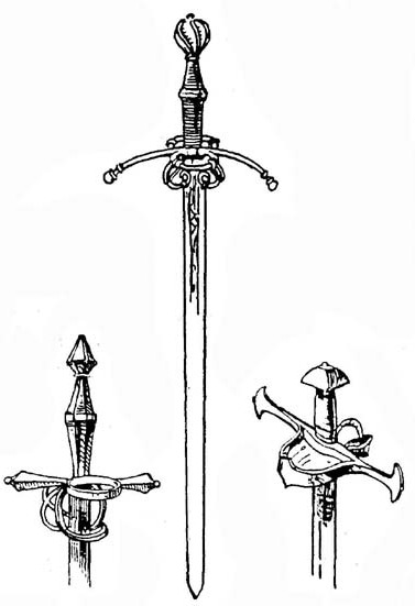 Drawings of German Reiterschwerter from Boeheim (1890), collage of figures 281, 282 and 283 (pp. 244f.). on the left (fig. 281): German Reiterschwert, circa 1530, 108 cm on the center (fig. 282): Reiterschwert of the type used by the curassiers of Kurfürst Albrecht von Bayern, circa 1540, 112 cm, Milanese workmanship on the right (fig. 283): light Reiterschwert, circa 1510, 107 cm, Italian workmanship